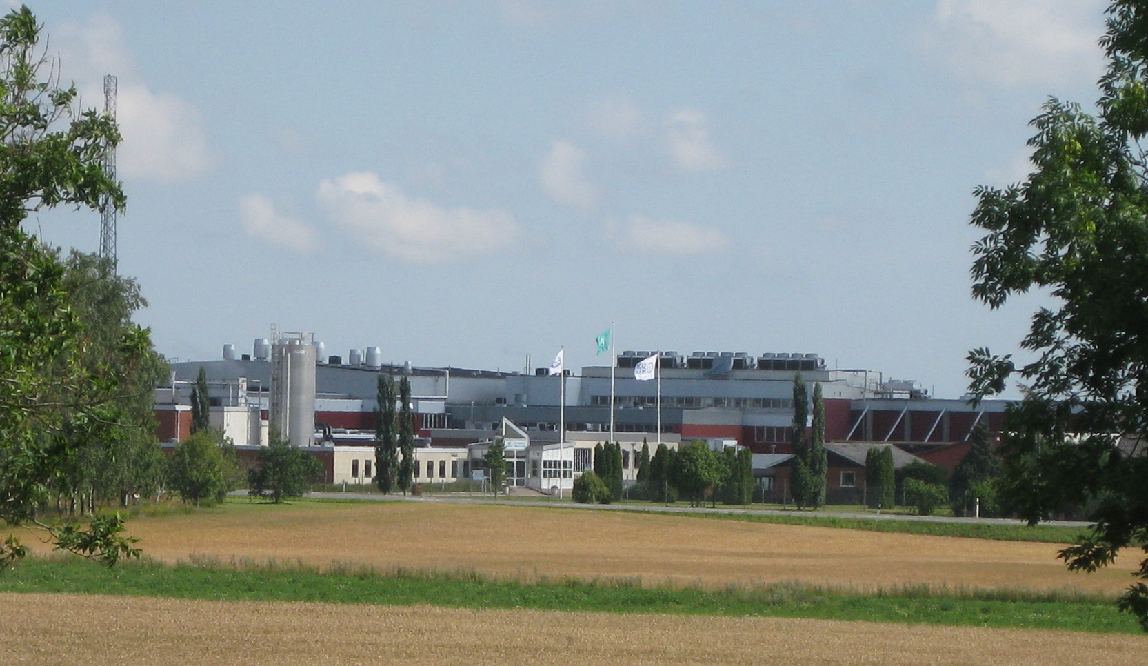 Lunnarp dairy i Scania, Sweden